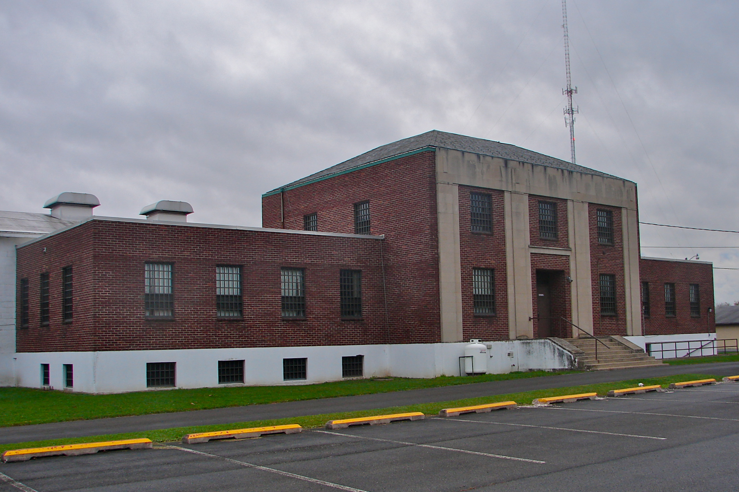 Lewisburg Armory on the NRHP since November 14, 1991. Near U.S. Route 15 south of its junction with Pennsylvania Route 45, just south of the stadium and the Bucknell Campus. In East Buffalo Township, Union County, Pennsylvania, just outside Lewisburg.